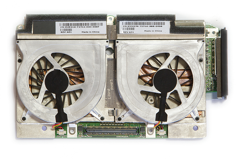 The Dell XPS M1730 proprietary 9800M GTX SLI graphics card.